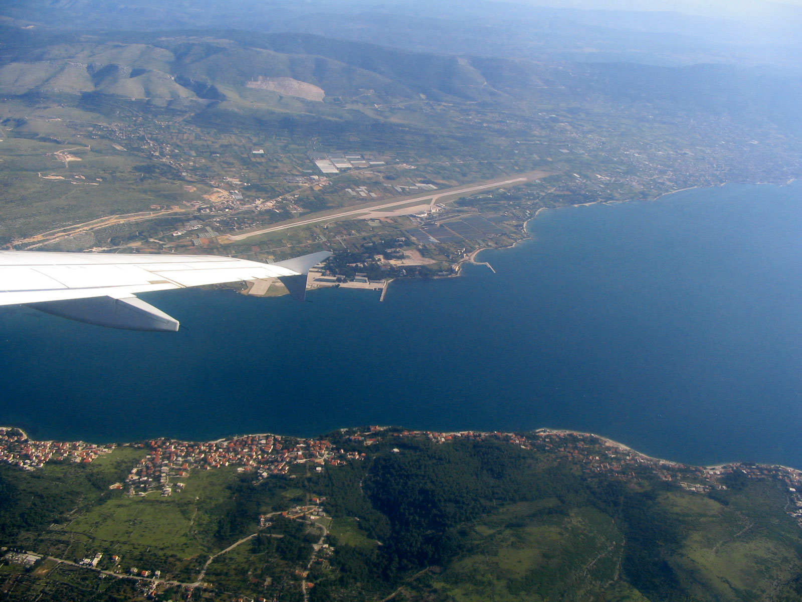 Split airport and Čiovo from air